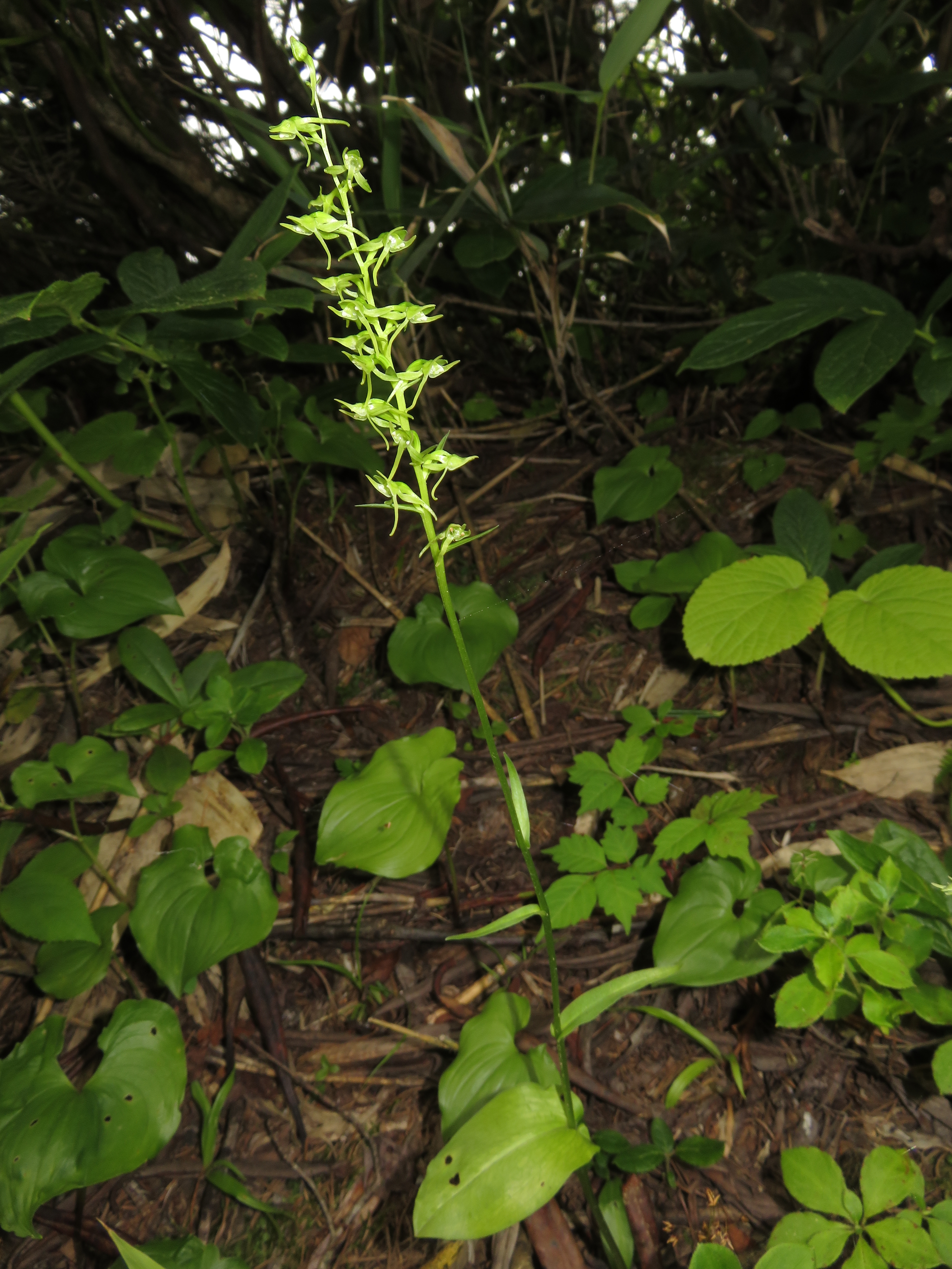 Platanthera ophrydioides, Mount Adatara, Fukushima pref., Japan